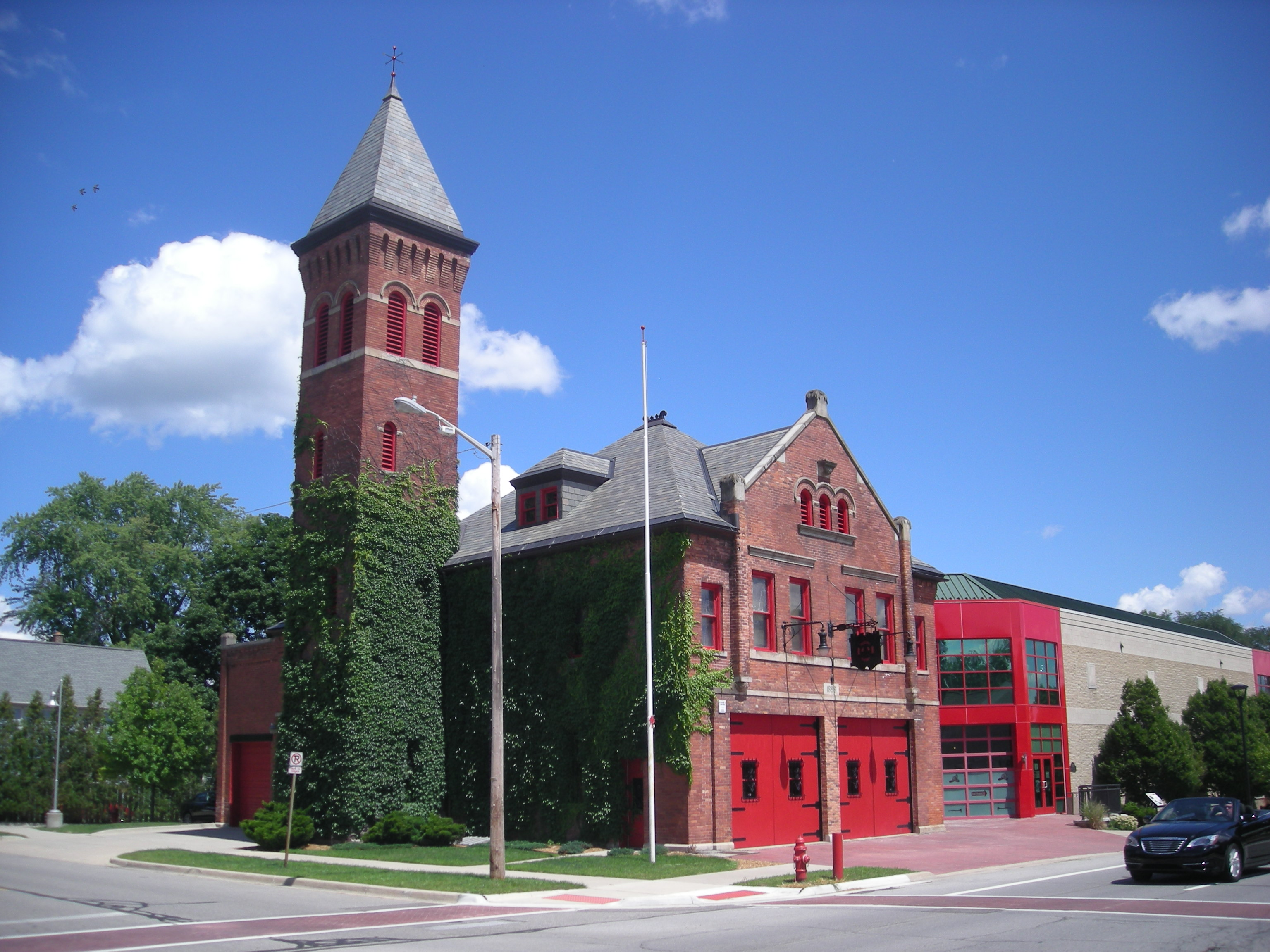 The exterior of the Michigan Firehouse Museum in Ypsilanti, Michigan (United States).